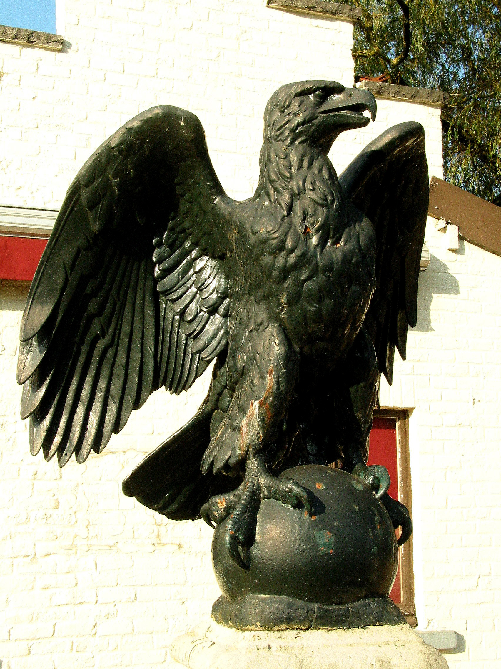 Waterloo (Belgium), Fine bronze eagle statue. – A commemorative monument of the Battle of Waterloo that used to stand in front of the "Bivouac de l'Empereur" inn. Since this photograph was taken, along with some other buildings, the building that contained the "Bivouac de l'Empereur" has been demolished, to make way for new facilities at the Lion Mound in time for the bicentennial commemoration of the battle in 2015. During the redevelopment of the site the Eagle was restored and relocated close to its original position (Waterloo Lion Renovation Weekly).